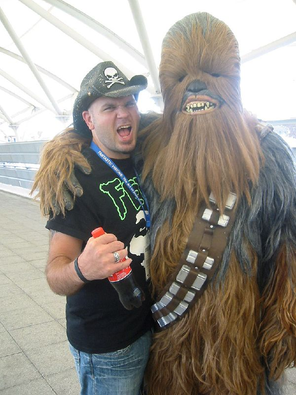 Star Wars artist Matt Busch and Chewie have a little break. Photo by Bonnie Burton. Read more about Celebration Europe on Costumes at Star Wars Celebration Europe in 2007 at the ExCeL Exhibition Centre, London.